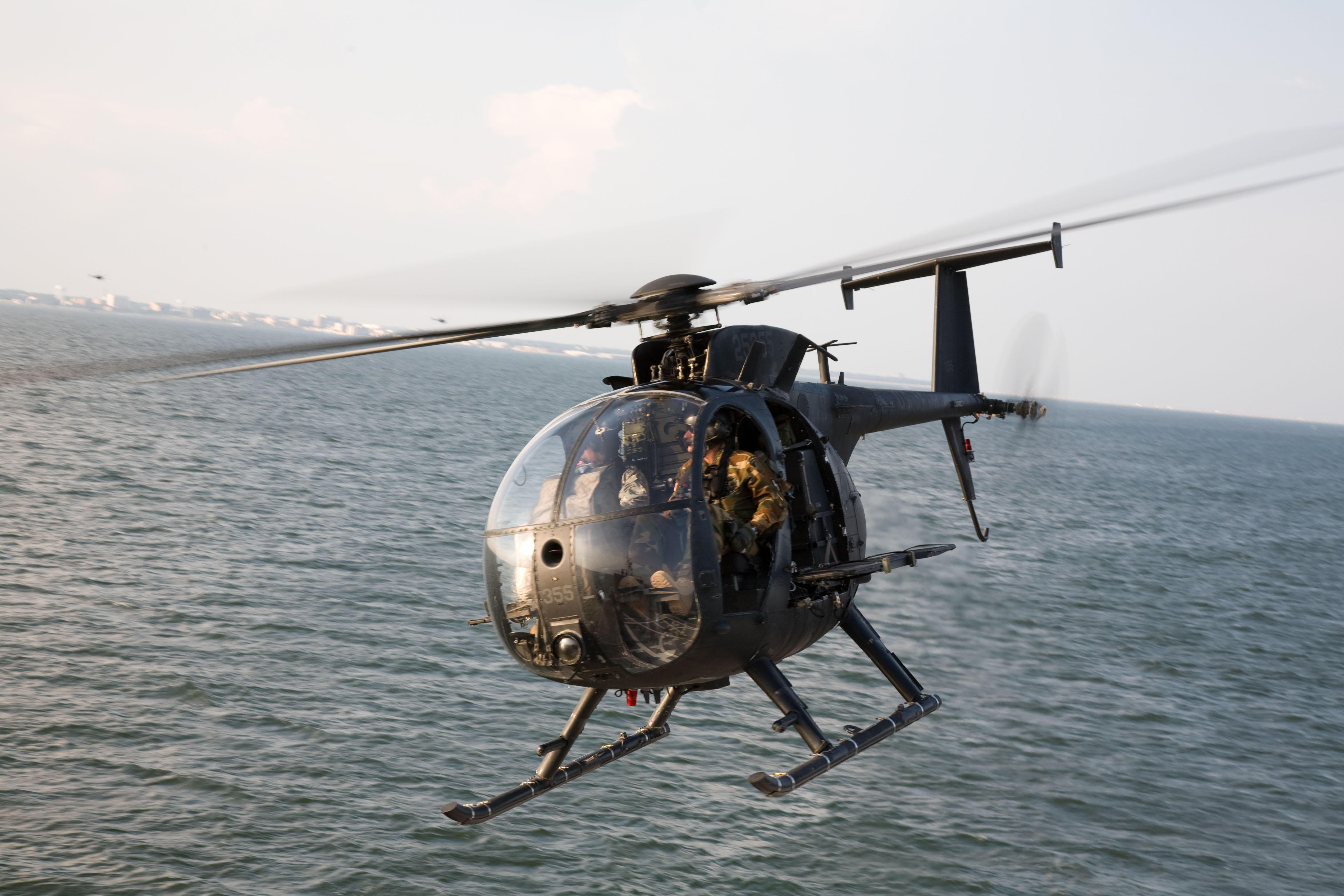 The MH-6 Little Bird, only found in the 160th Special Operations Aviation Regiment, is a light utility helicopter modified to externally transport several combat troops. With these quick, manueverable aircraft the Night Stalkers are capable of conducting infiltration, exfiltrations and combat assaults in virtually any type of terrain or environment. The versitility of the Little Birds also lend them to a variety of other missions, such as reconnaissance.